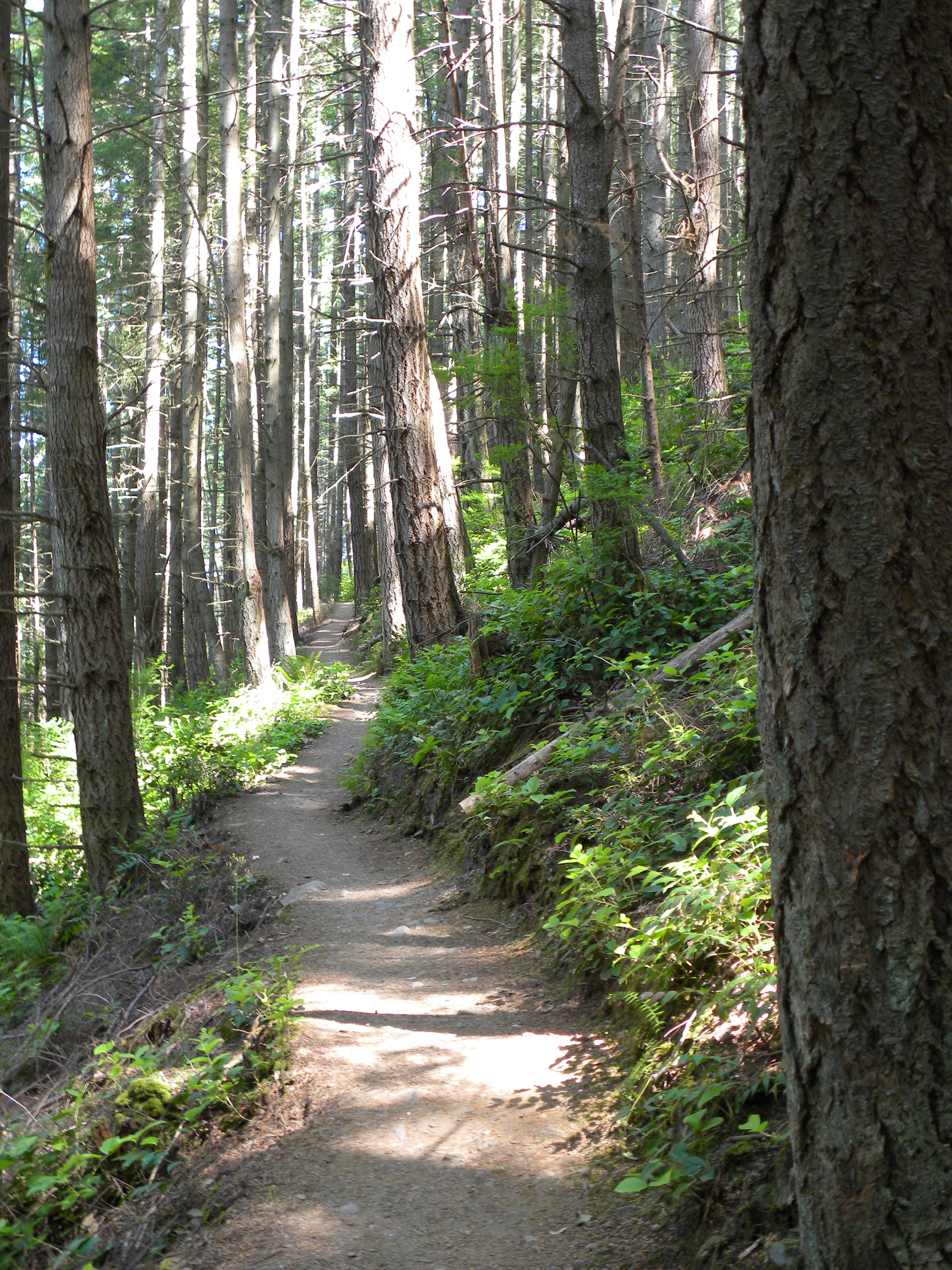 The Pacific Northwest Trail. The original Flickr set is labelled "Oyster Dome", which is on Blanchard Mountain in the Chuckanut Mountains of northern Washington (state), United States.